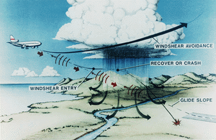 Sketch showing effect of wind shear during aircraft descent into an airport. NASA.